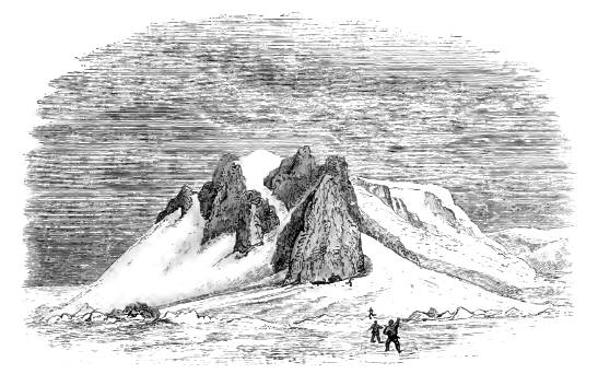 Cape Schroetter (Gogenloe Island)